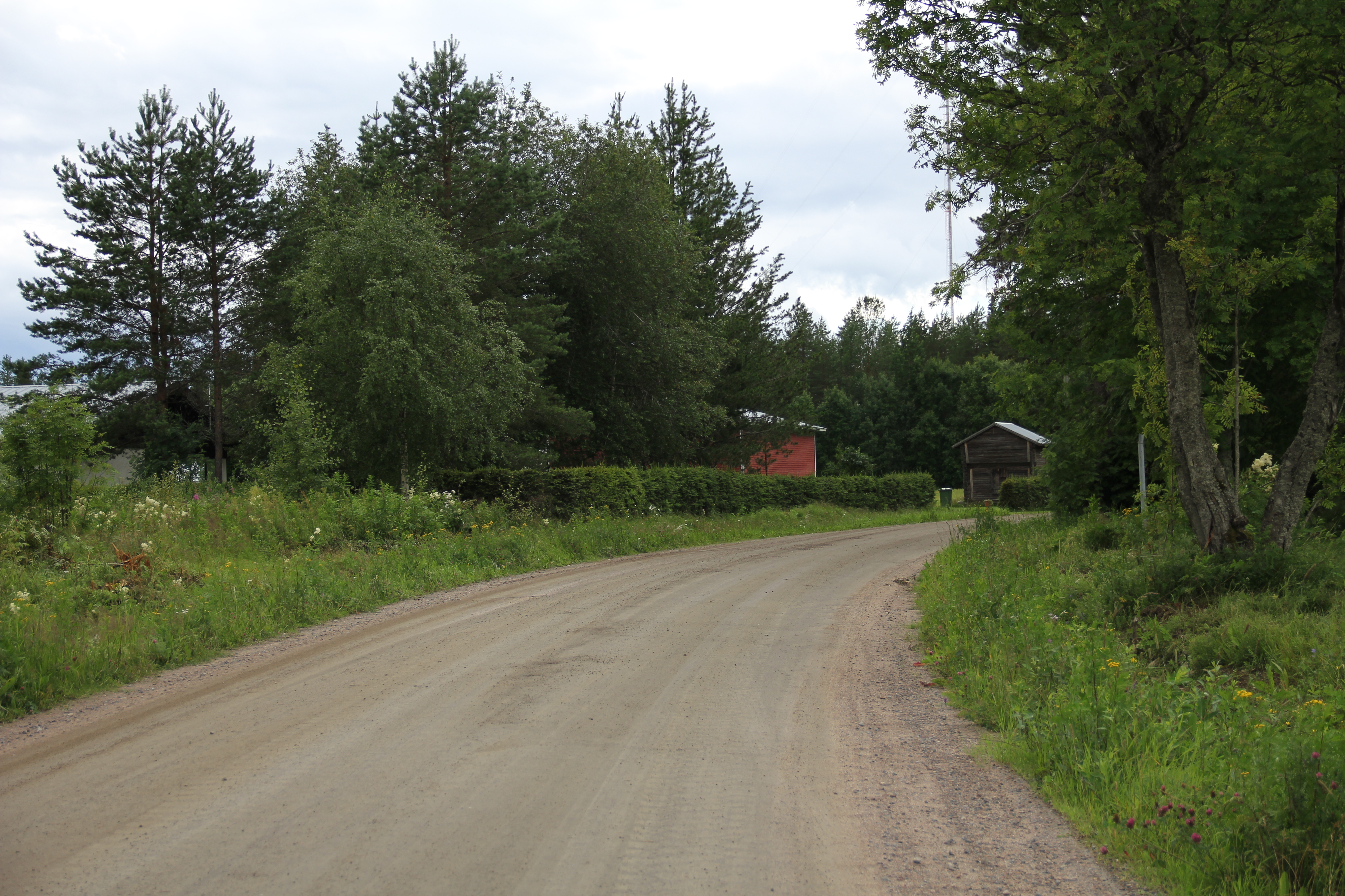 Saviselkä–Piippola Museum Road, Finland. -Saviselkä village.